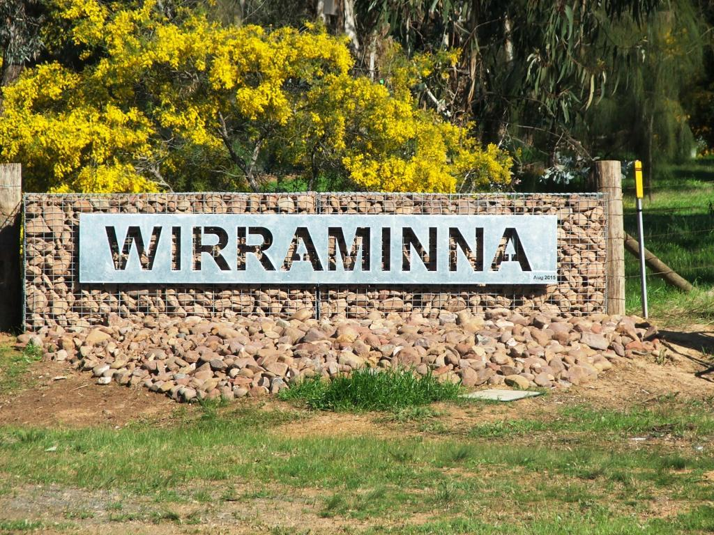 Gabion sign at the entrance of Wirraminna Environmental Education Centre